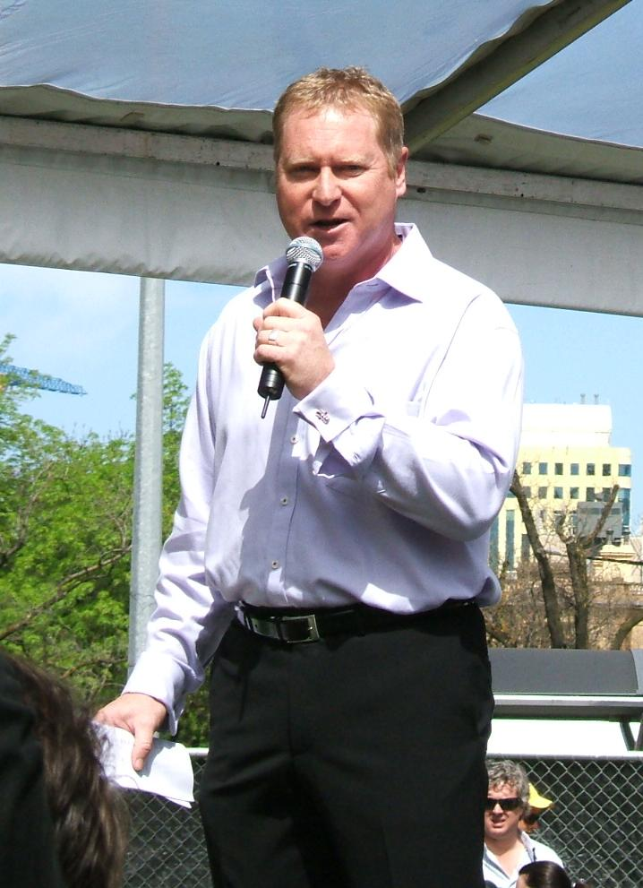 Chris Dittmar at the 2008 Olympic welcome home parade in Adelaide